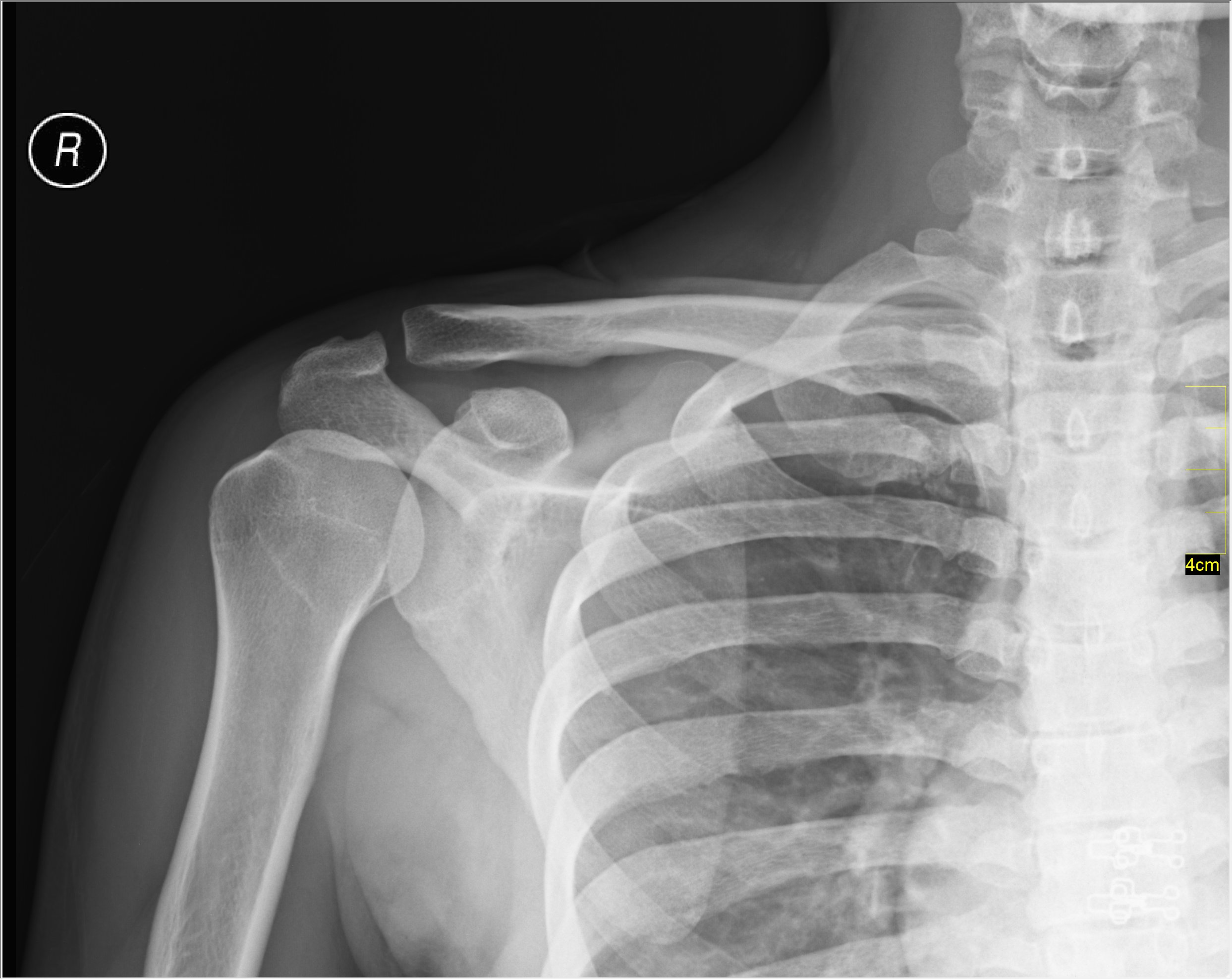 Medical X-rays.